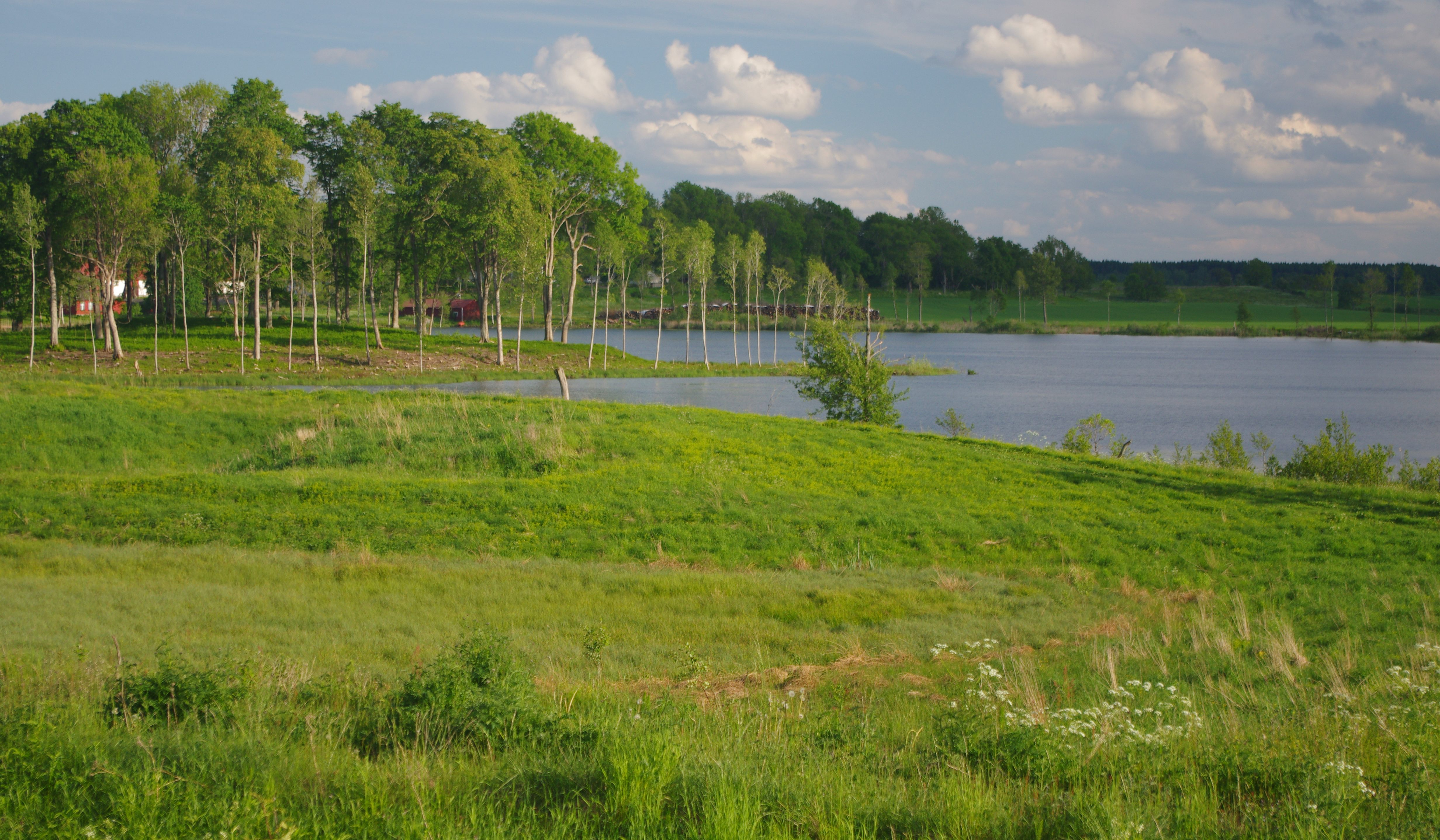 Vartoftasjön: Lake in Västergötland Sweden